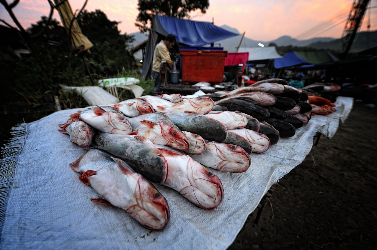 Thai-Laos Border Market2